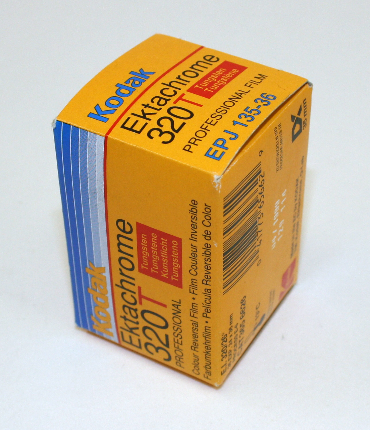 Ektachrome 320T film box